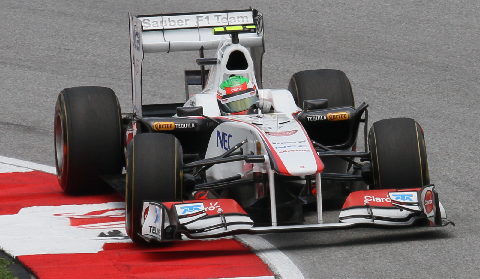 Formula One 2011 Rd.2 Malaysian GP: Sergio Pérez (Sauber) during the third practice session on Saturday.